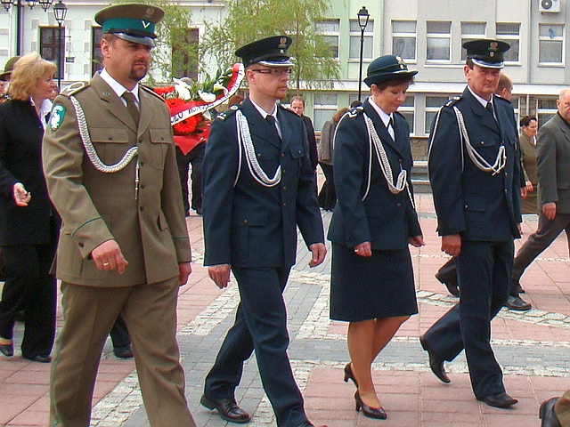 Polish Border Guard and Border Control, Sanok